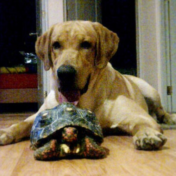 A Labrador dog called Max is behind a little Red-Footed turtle called Franklin. They are good friends, Mexico City.